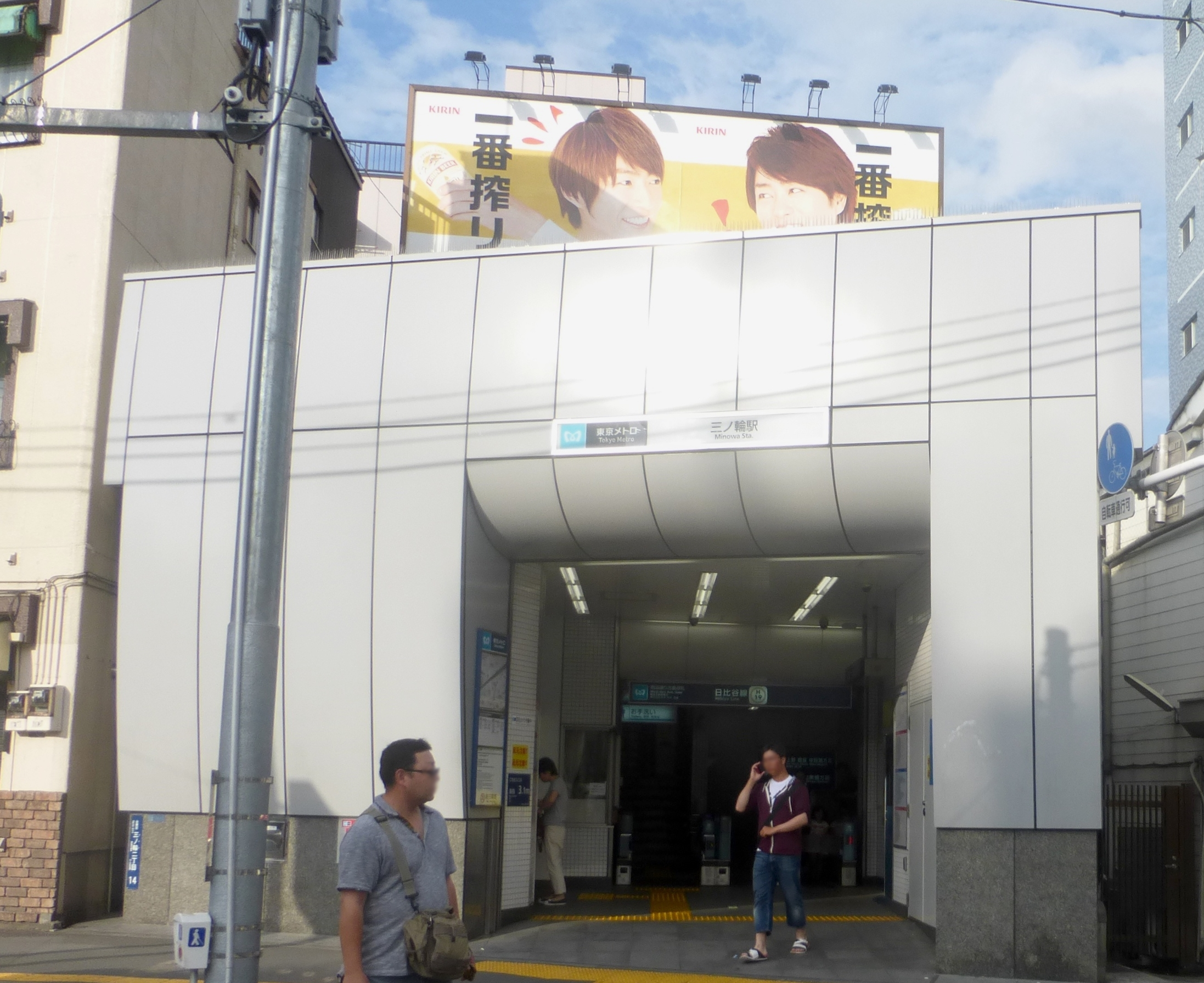 Minowa Station exit 3